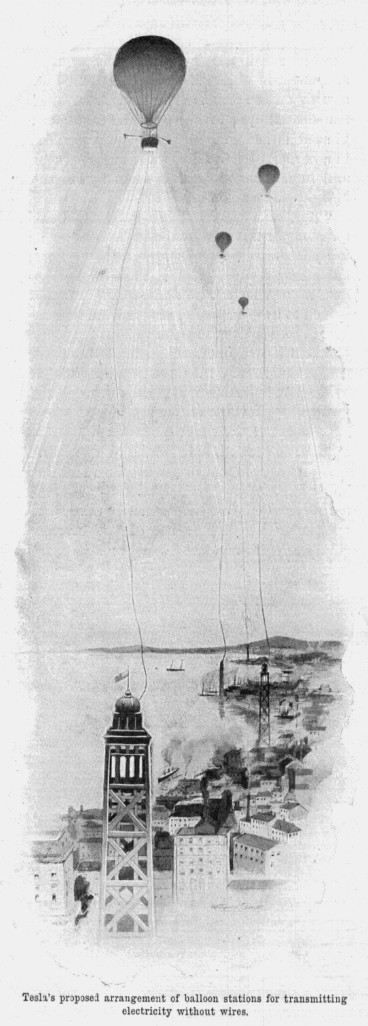 Pearson's Magazine, May 1899. Illustration of Tesla's wireless energy distribution